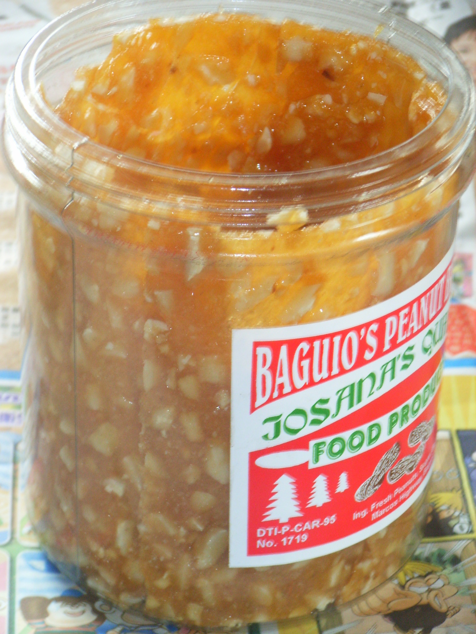 Baguio's Peanut brittle